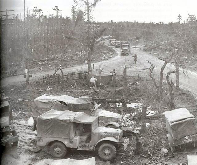 The crossroads at Wahlerscheid on February 13, 1945. The 9th US Infantry Regiment first captured the junction on December 15, but were forced to withdraw to the Elsenborn Ridge during the Battle of the Bulge, where they held. They recaptured the crossroads again in early February 1945. This photo was taken from rear portion of the southwest corner of the crossroads. Photographed by Sgt. Bernard Cook of the 165th Signal Photo Company.